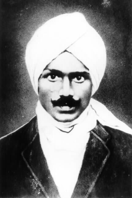 artistic depiction of Subramanya Bharathi (1882 - 1921). Photograph is File:பாரதி,_அபூர்வ_புகைப்படம்.JPG and File:Subramanya Bharathi with wife Chellamma.jpg